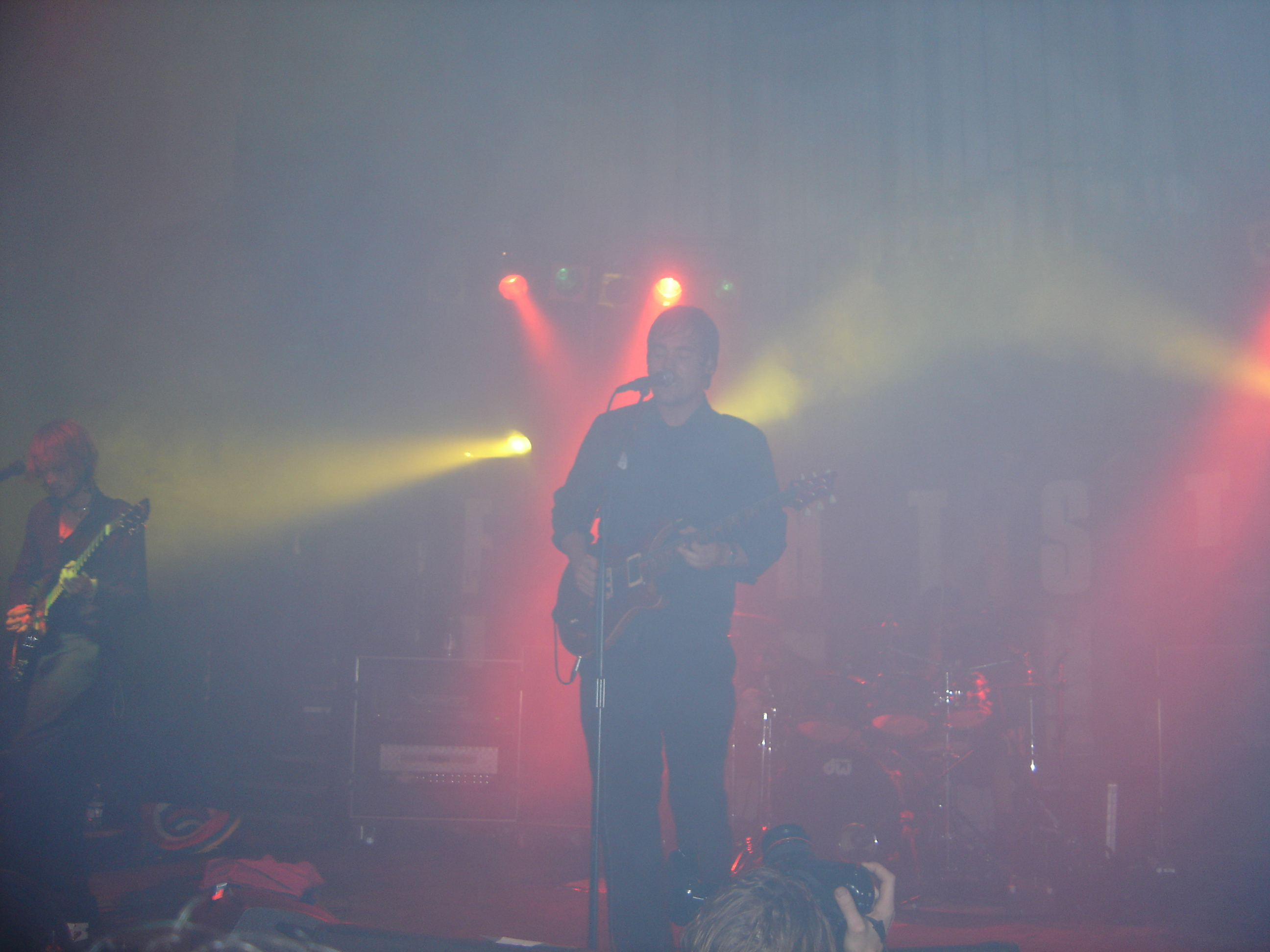 Taken from the gig at the sanctuary in Birmingham on 06/10/2007. Taken on digital camera